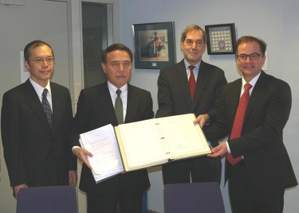 Picture on the occasion of the signature and ratification of the Hague Abduction Convention of Japan; with Secretary General of the Hague Conference on Private International Law Dr. Bernasconi and H.E. Mr Masaru Tsuji, Japan’s Ambassador to the Netherlands